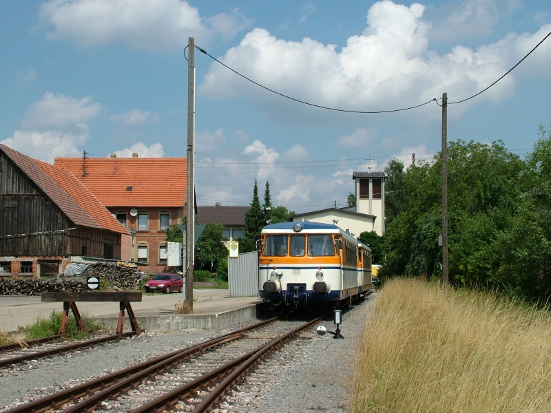 MAN railbus cars on the Neckarbischofsheim–Hüffenhardt railway at final destination Hüffenhardt